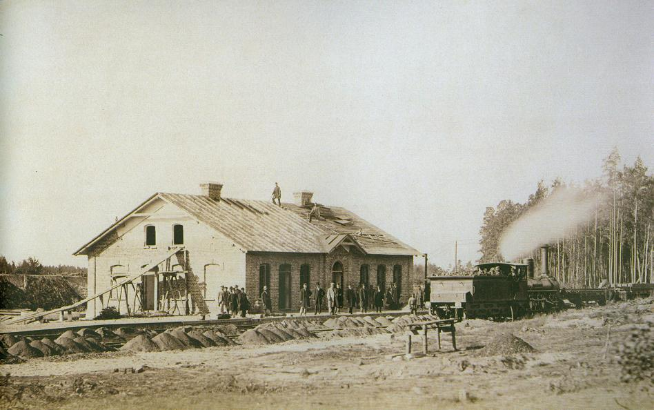 Miłosna Station Scaned and uploaded by Robert Wielgórski (Barry Kent)